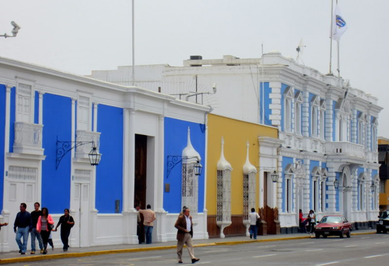 Calle Pizarro en la Plaza de Armas